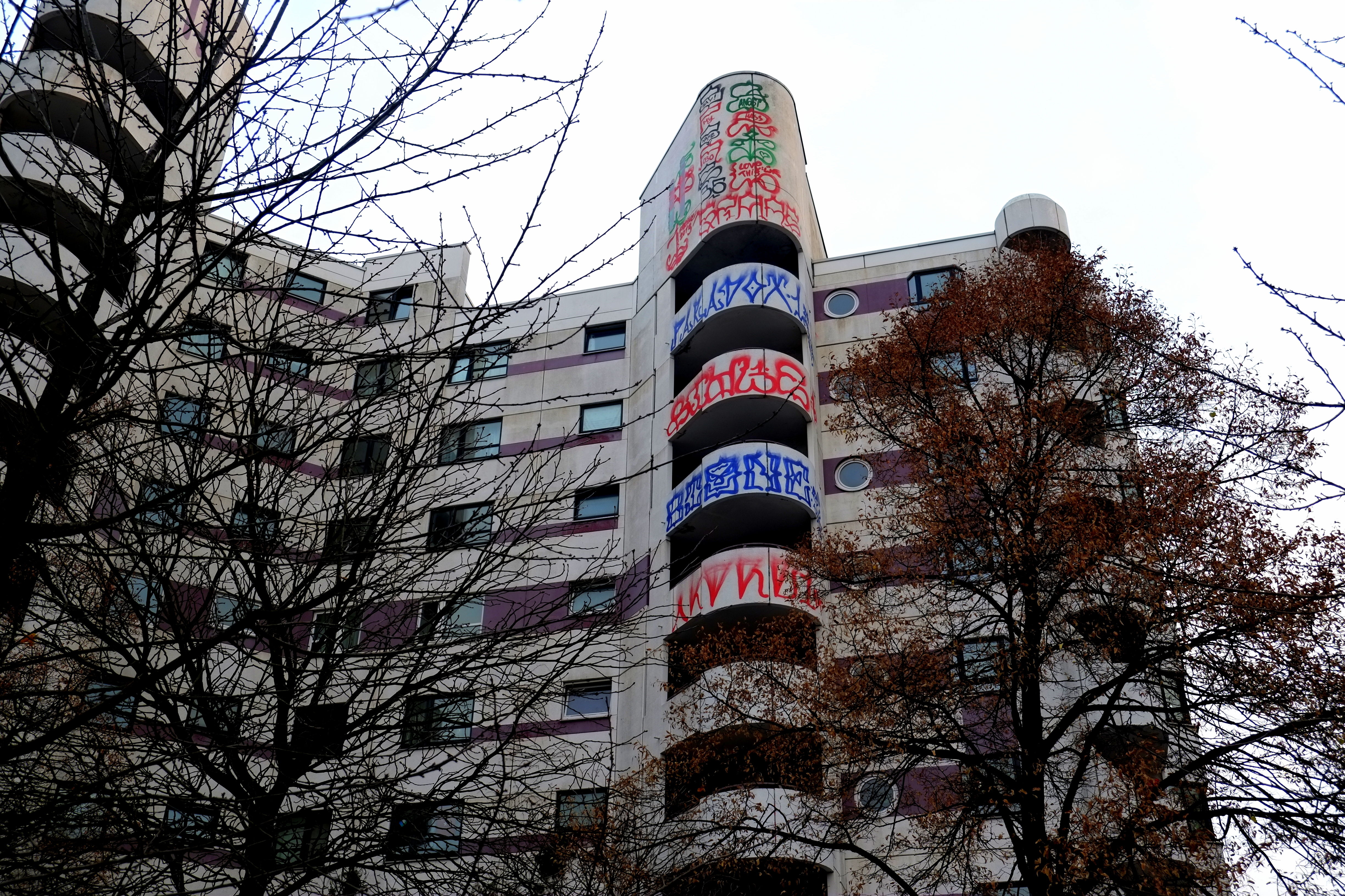 A graffiti by the Berlin based groupe 'Berlin Kidz' on a residential building at Kottbusser Tor